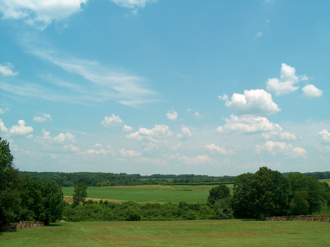 Photo of the battlefield at Monmouth Battlefield State Park, Freehold, NJ. This photo is very similar to one that appears on page 69 of Brian Morrissey's book Monmouth Courthouse 1778. While the landscape and trees are identical, the author's photo does not show the split-rail fences. The caption of Morrissey's photo reads, "View north from Comb's Hill".